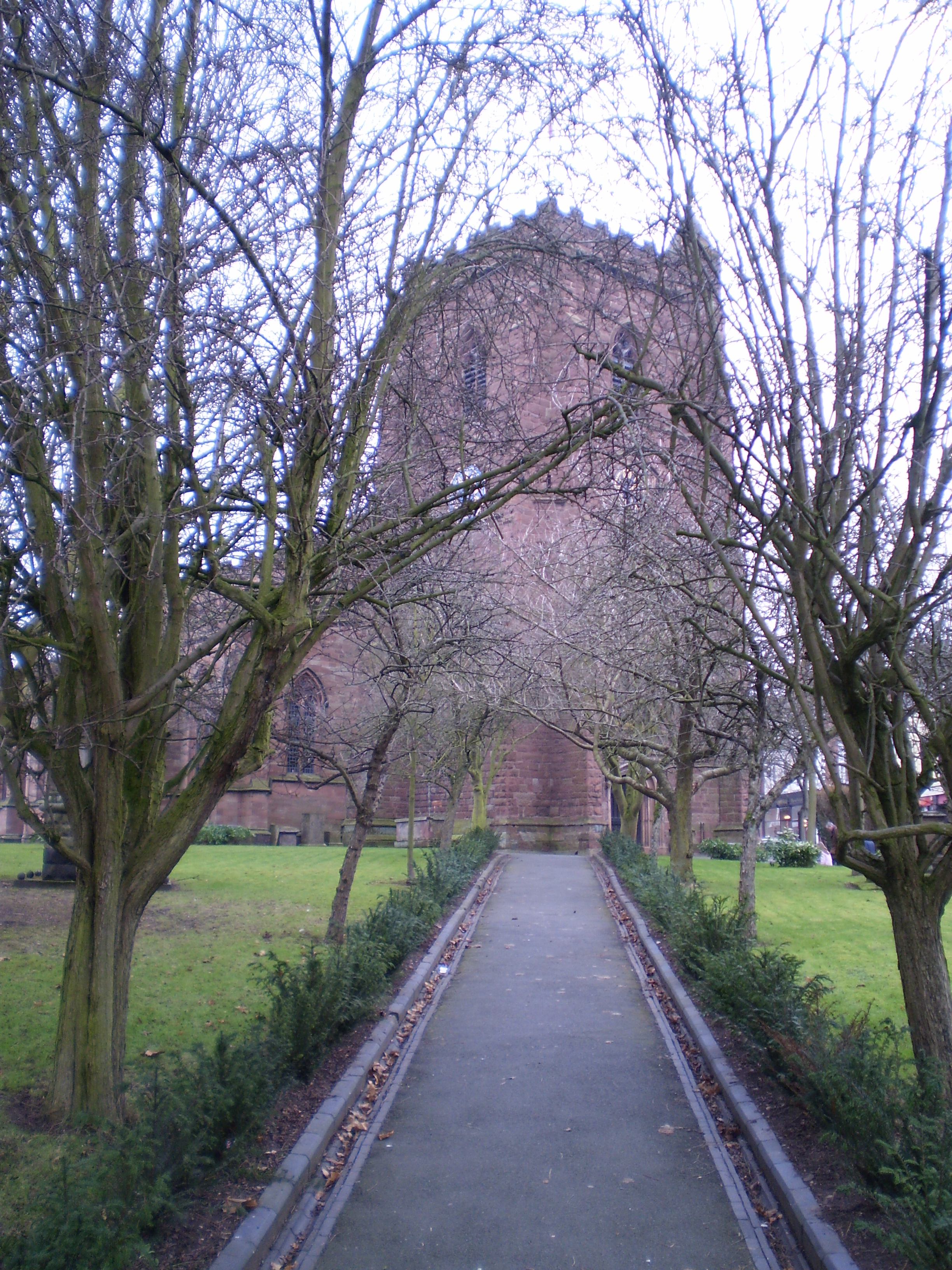 St Nicolas church, Newport